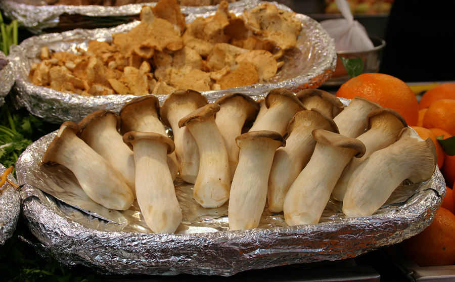 Pleurotus eryngii mushrooms in a Spanish market hall